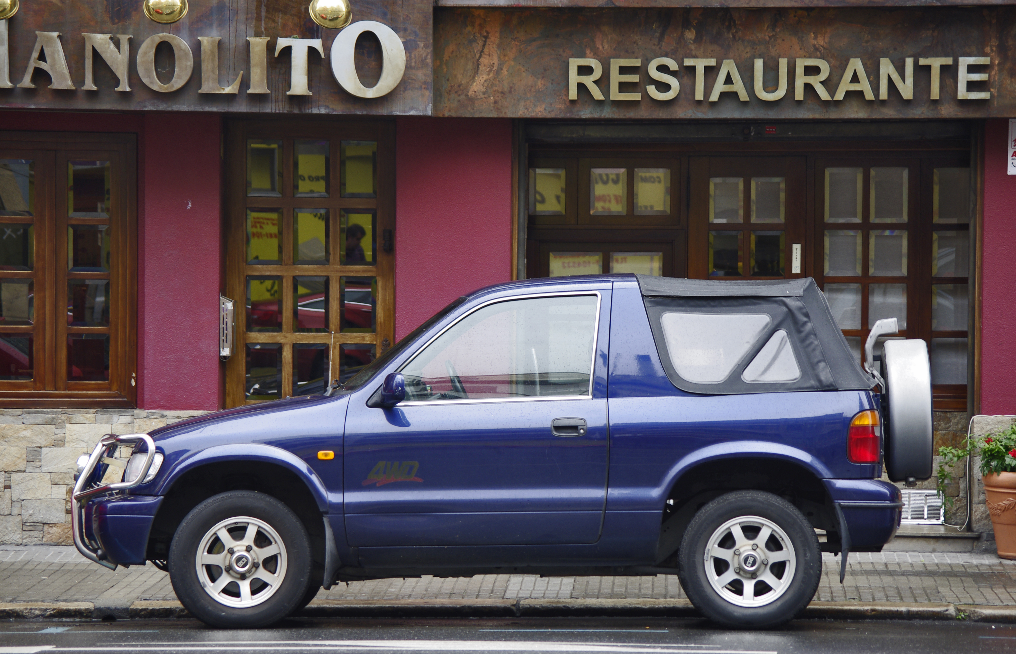 So neat! This generation sportage is quite common in Spain, not in two door convertible form though which is why I pictured this. I know of another red one close to me that I haven't been able to snap yet.